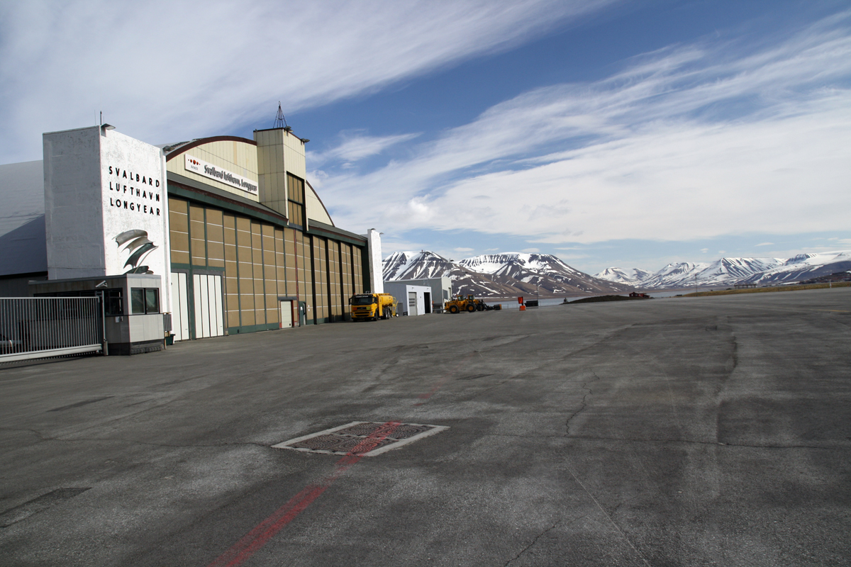 Longyearbyen (LYR) Airport